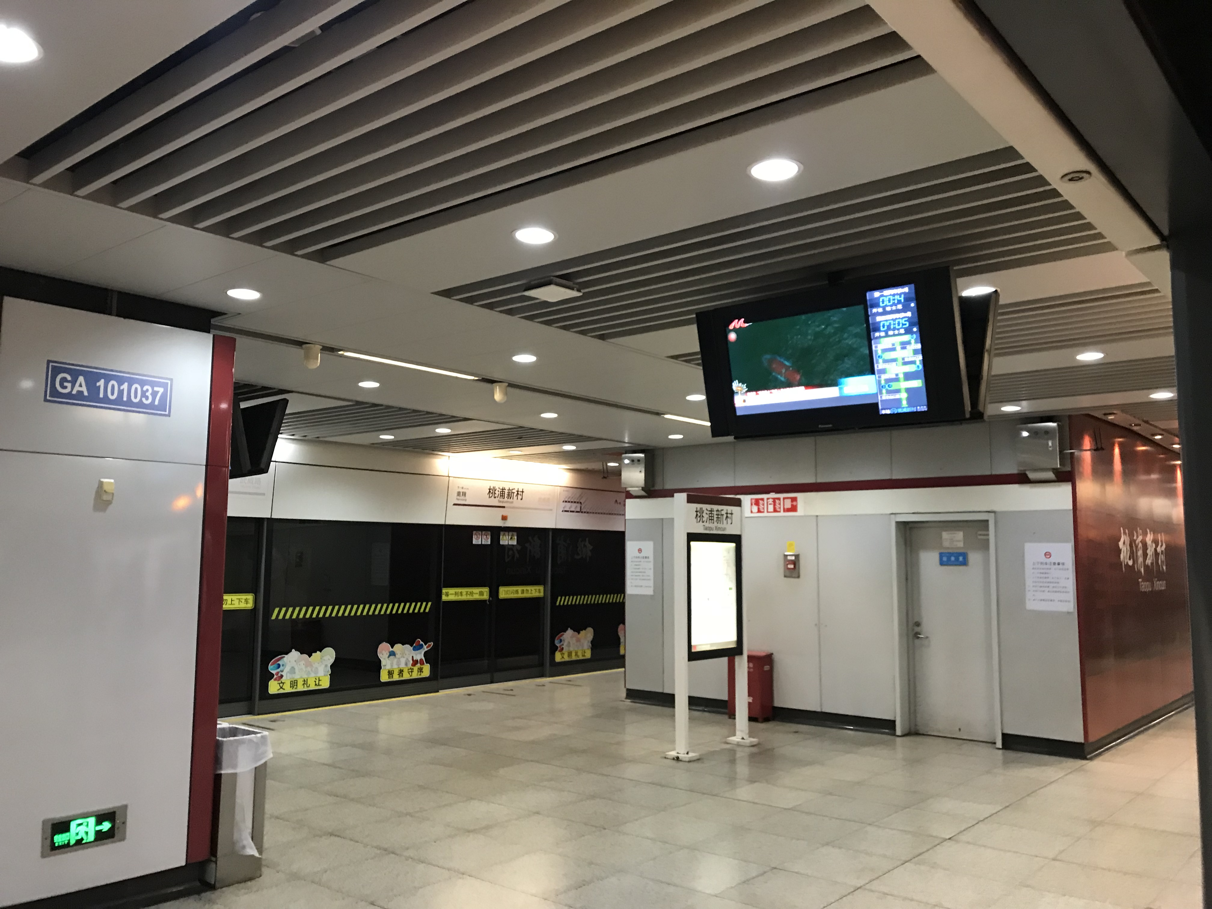 201805 Taopu Xincun Station